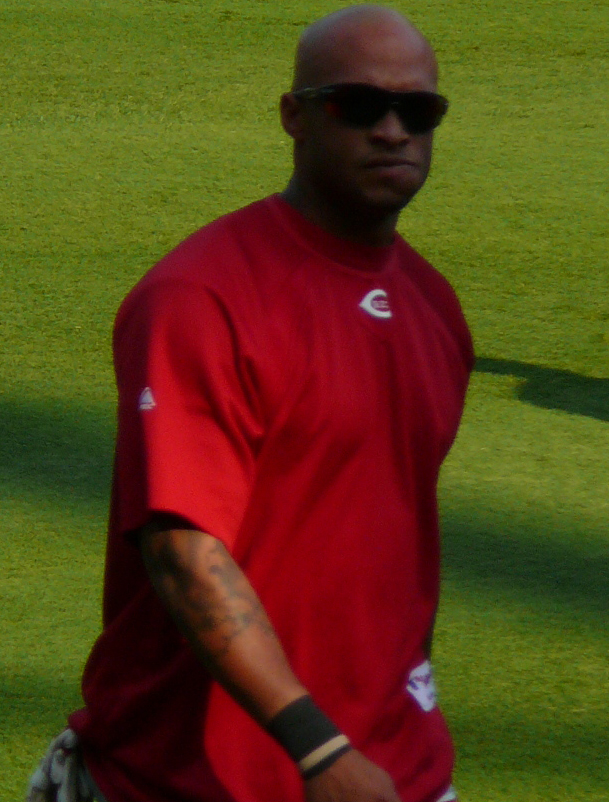 If used somewhere other than Wikipedia, Nelson, by name. 04:22, 20 September 2009 . . Chrisjnelson . . 609×802 (425 KB)